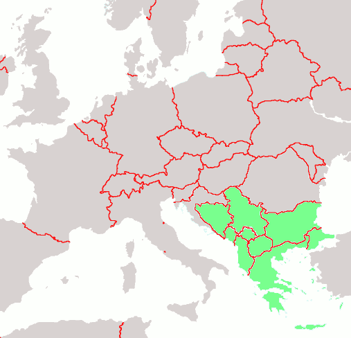 A map of the balkanic peninsula (2008)